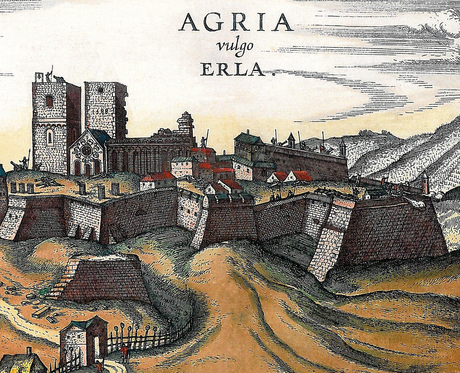 View of Eger (Agria, Erla, Erlau, Jagier, Jegar, Jager), Hungary